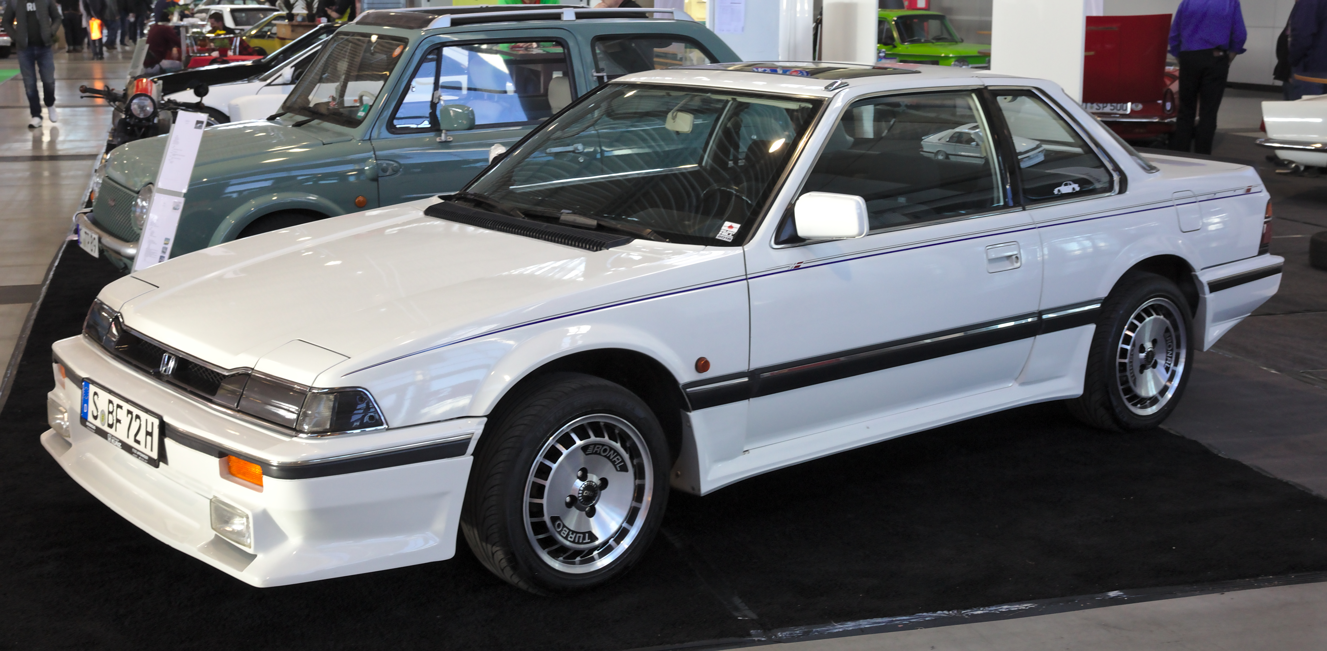 Honda Prelude AB at Retro Classics 2019